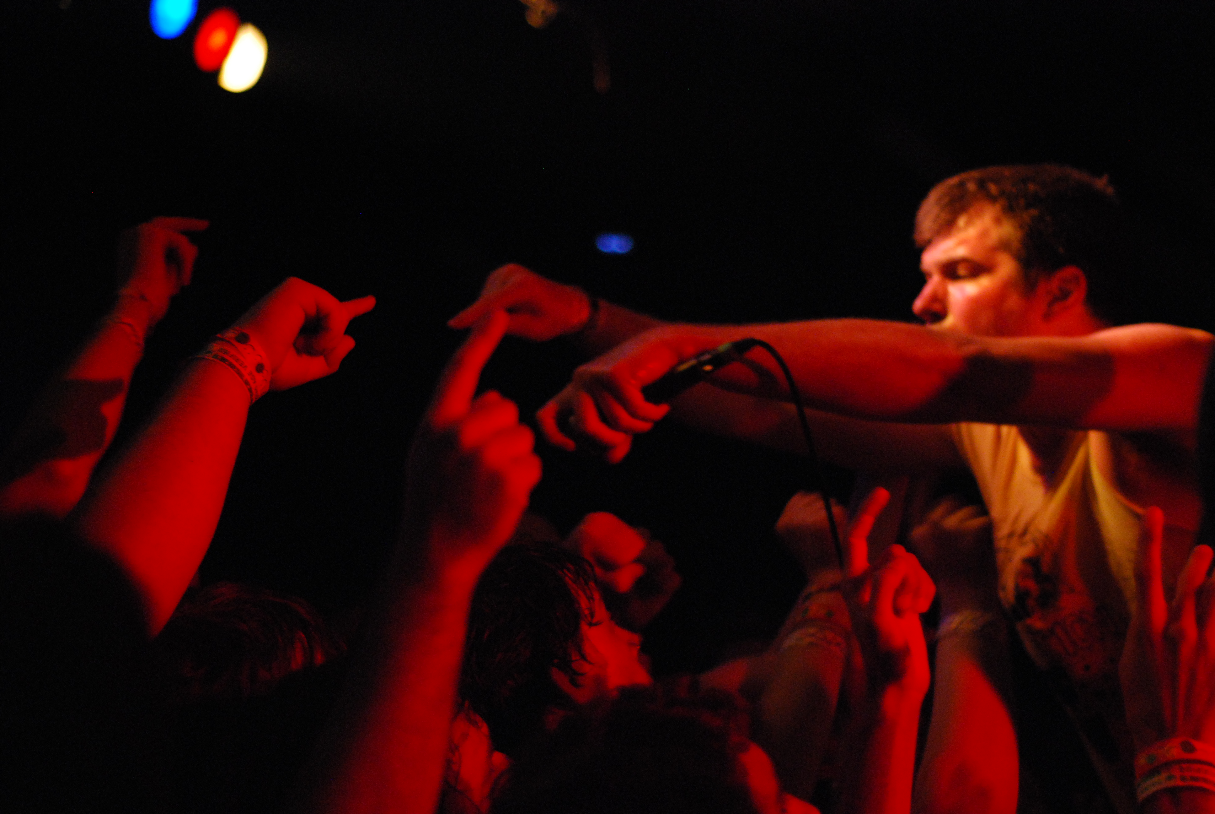 The Dopamines 5